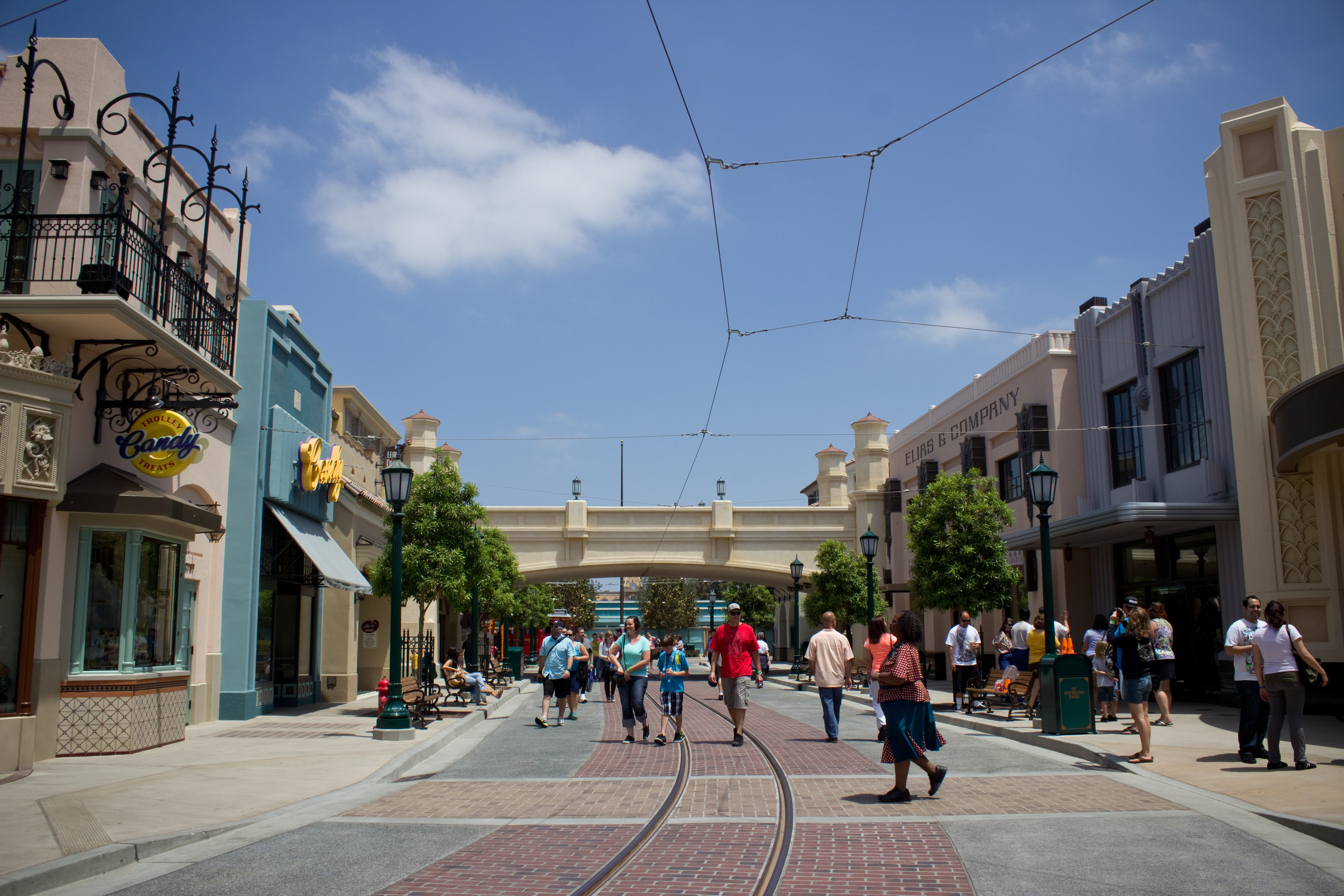 The brand new and absolutely beautiful Buena Vista Street at Disney California Adventure.